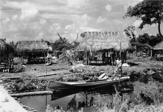 Seminole village in Everglades, a man poling a dugout canoe (Photographs depicting Seminole villages, 1928-1929).